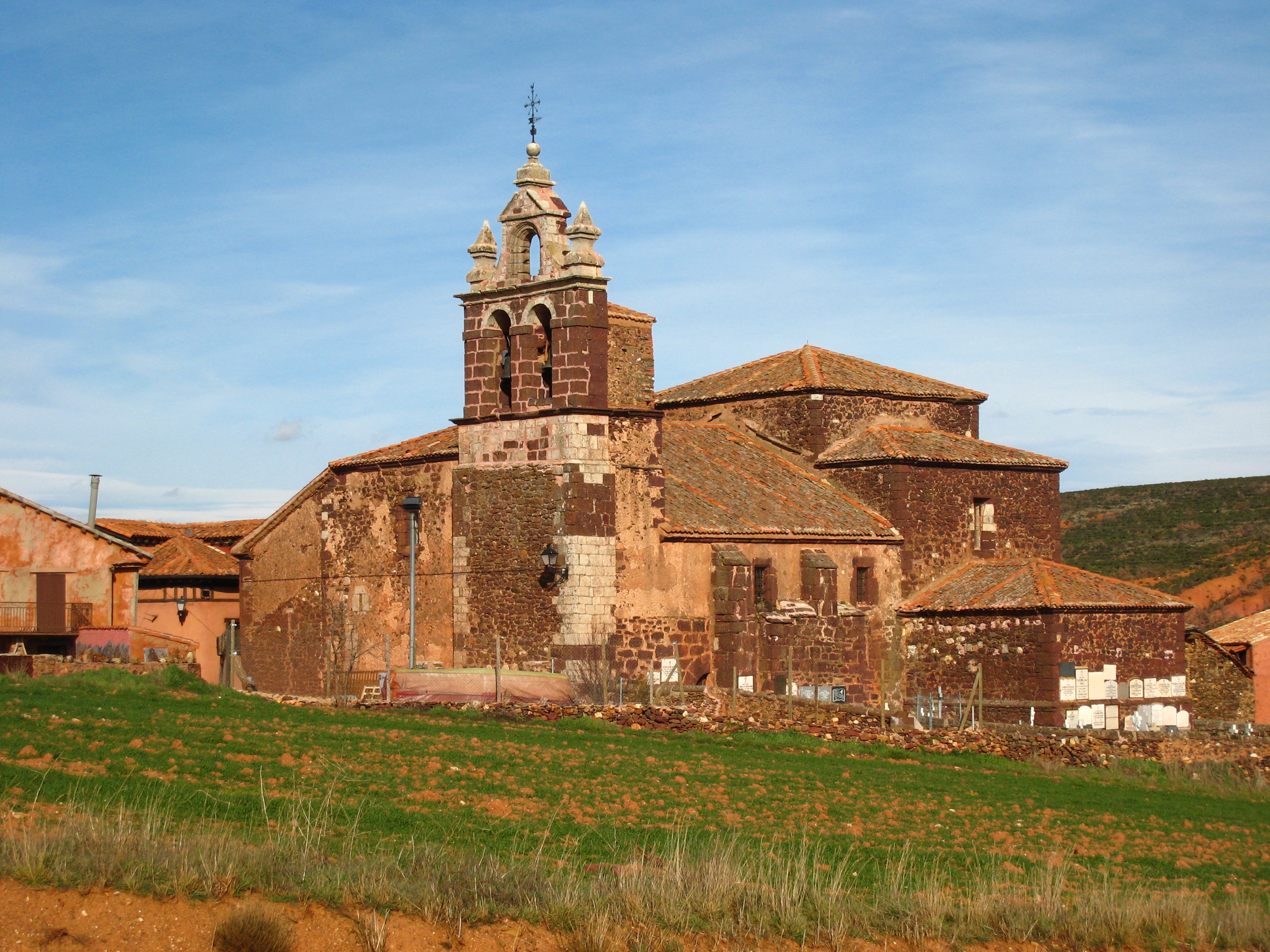 Madriguera (Segovia), "red village" due to its traditional architecture.